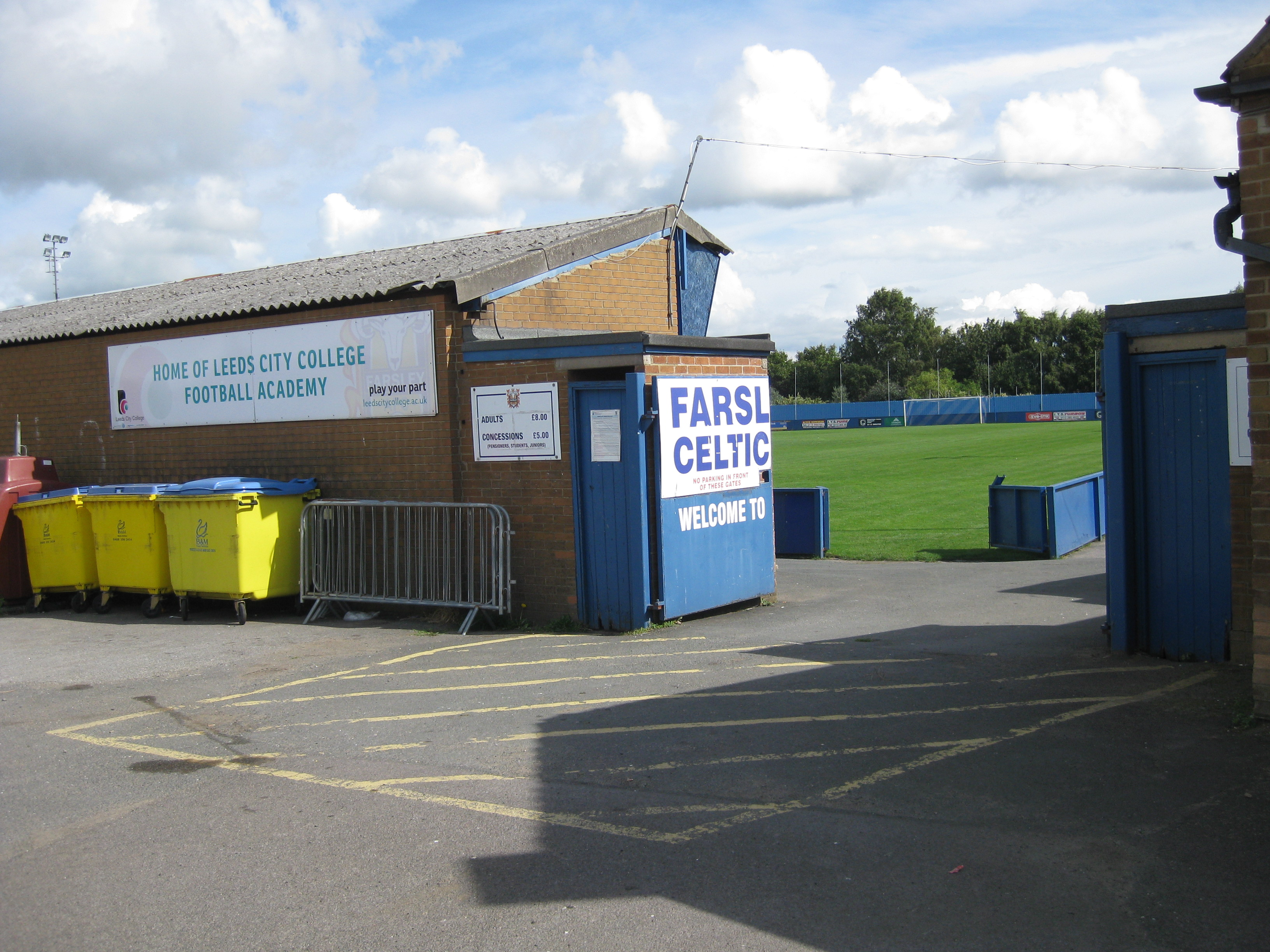 Farsley Celtic football ground (Throstle Nest). Entrance gate, looking North.